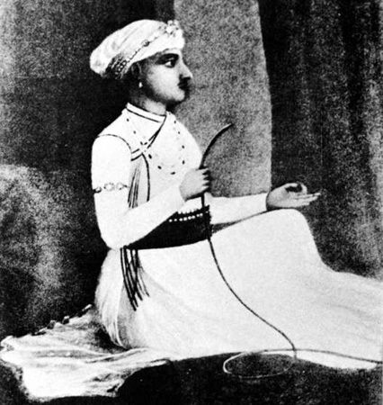 Portrait of Sarfaraz Khan, who was the Nawab of Bengal from 1727-27 and 1739-40.